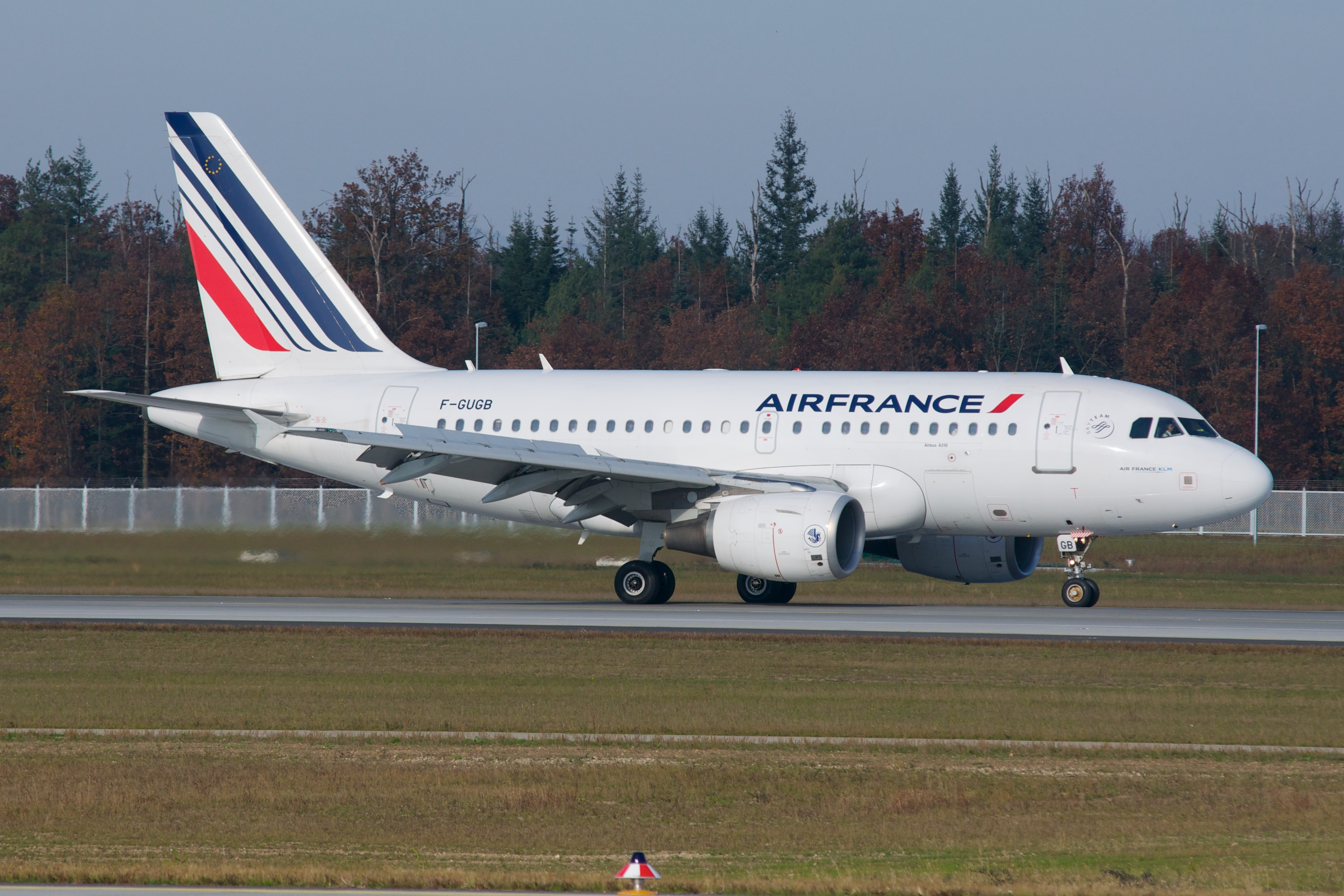 Rolling out, FRA.